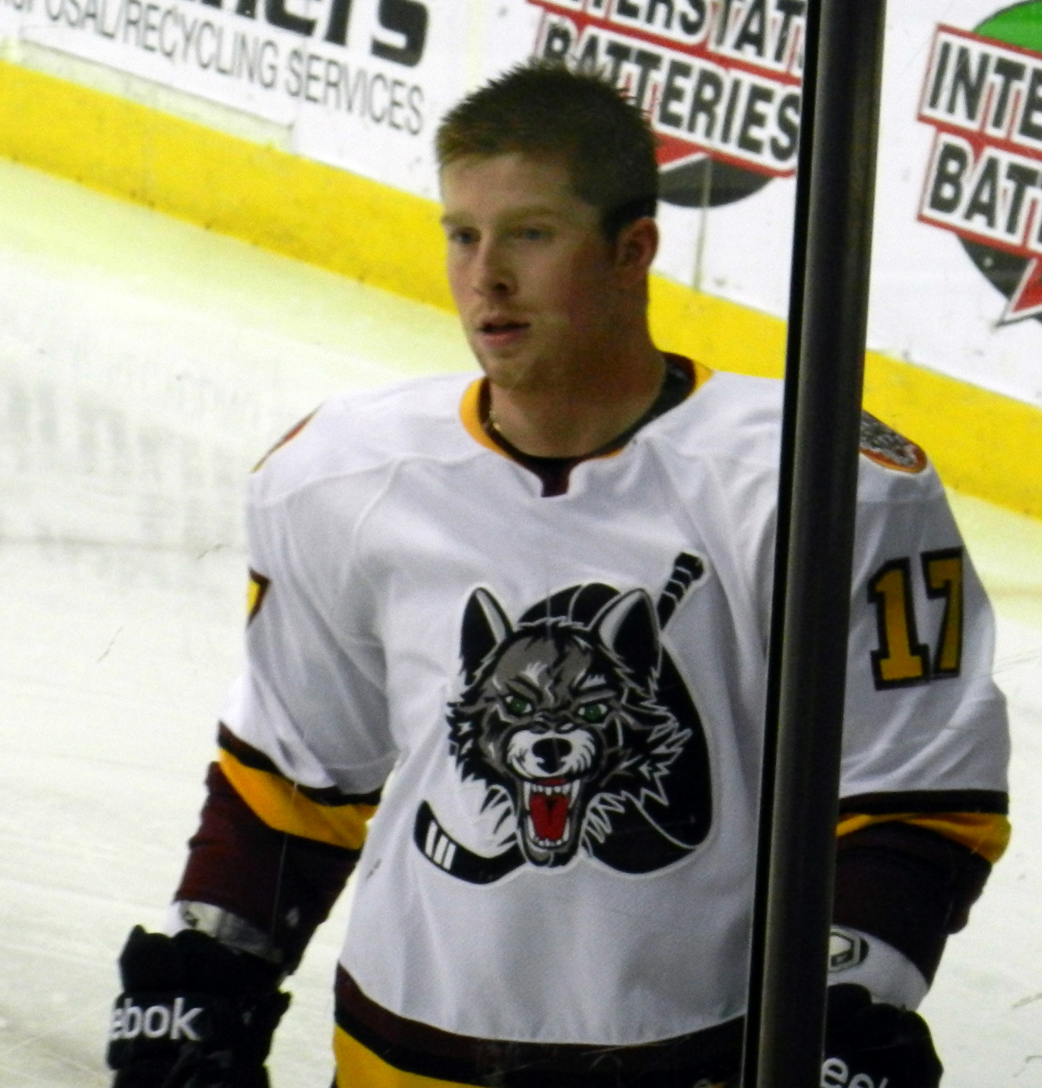 Mike Duco playing for the Chicago Wolves during the 2011-12 AHL season